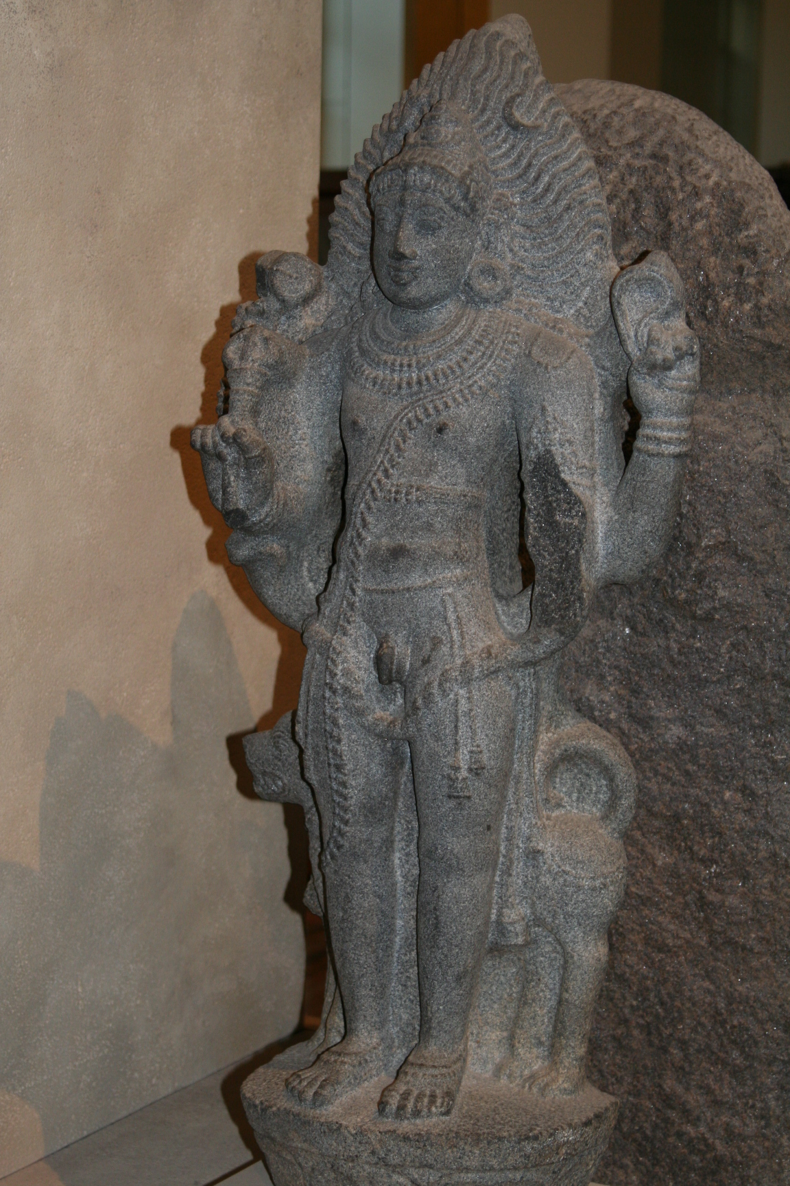 Shiva as Bhairava. Photos taken at the British Museum - Asian Gallery